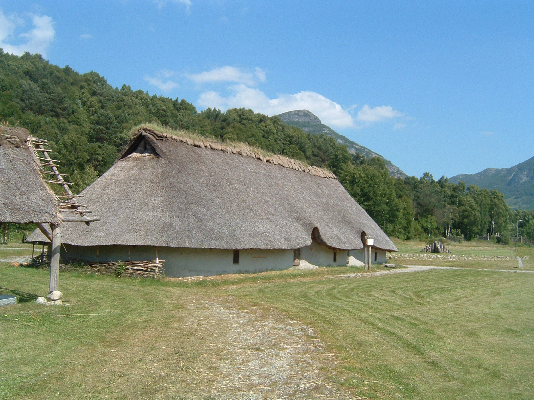 The reconstruted village Landa. Picture is viewing a house from the Bronze Age. Picture taken by Hallvard Nygård 30. june 2006.